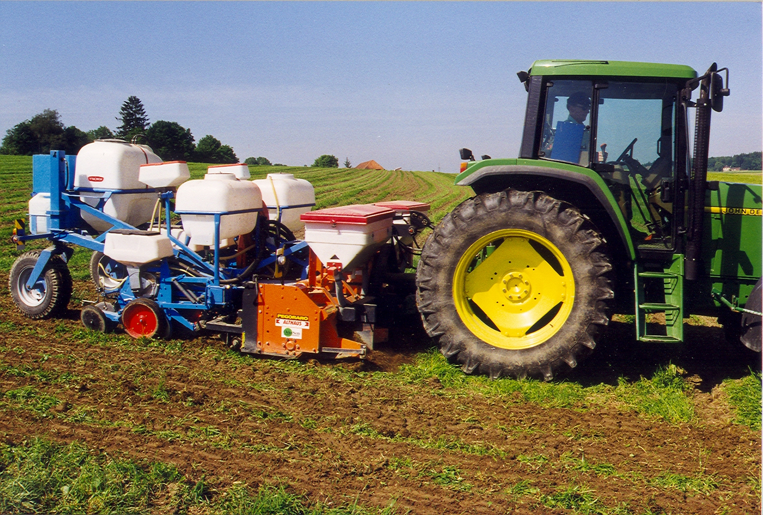 Cornfield, canton of Bern, Switzerland